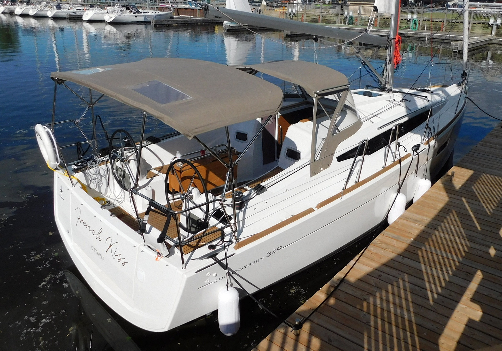 A Jeanneau Sun Odyssey 349 sailboat named French Kiss.